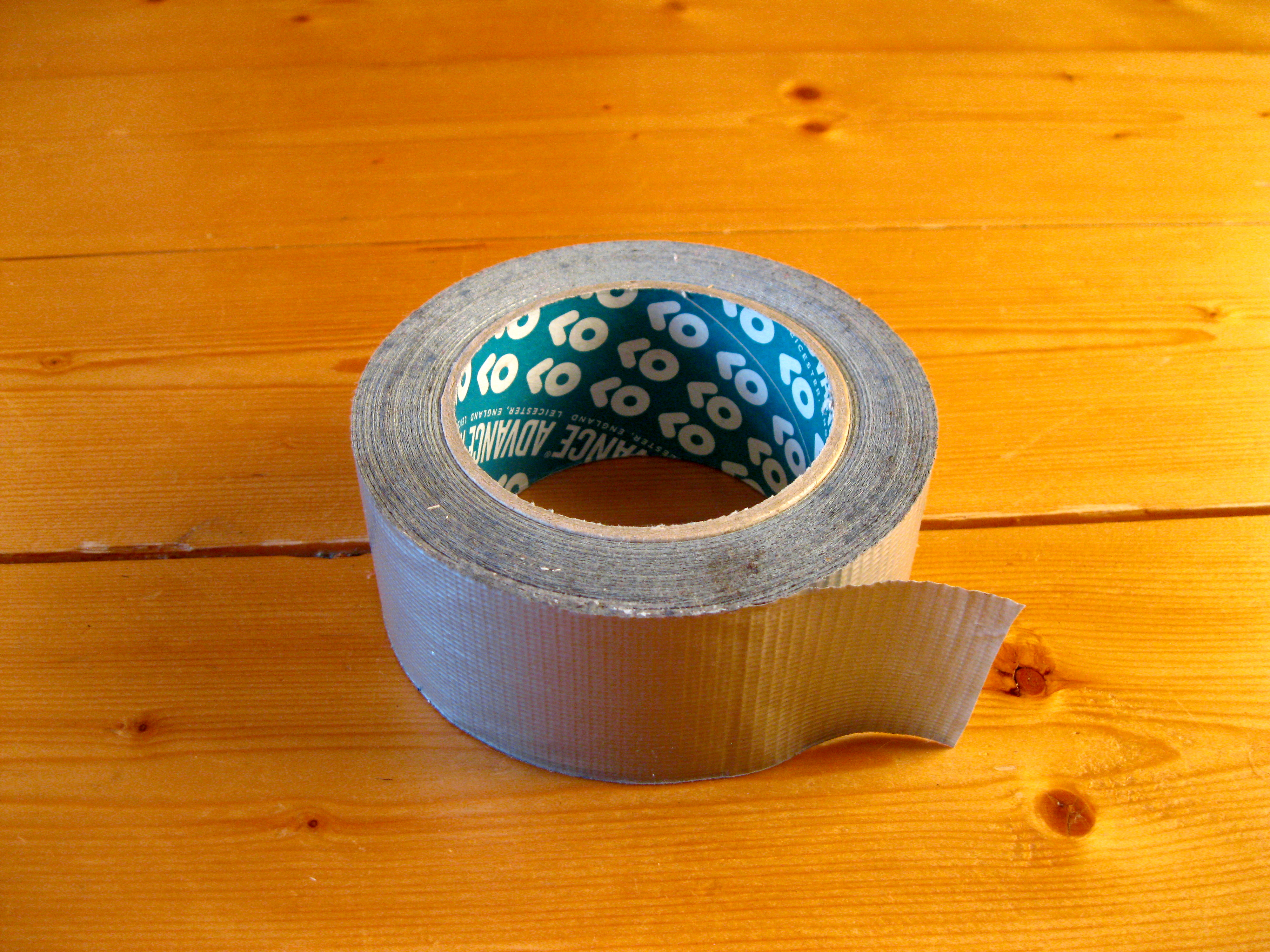 Duct tape roll